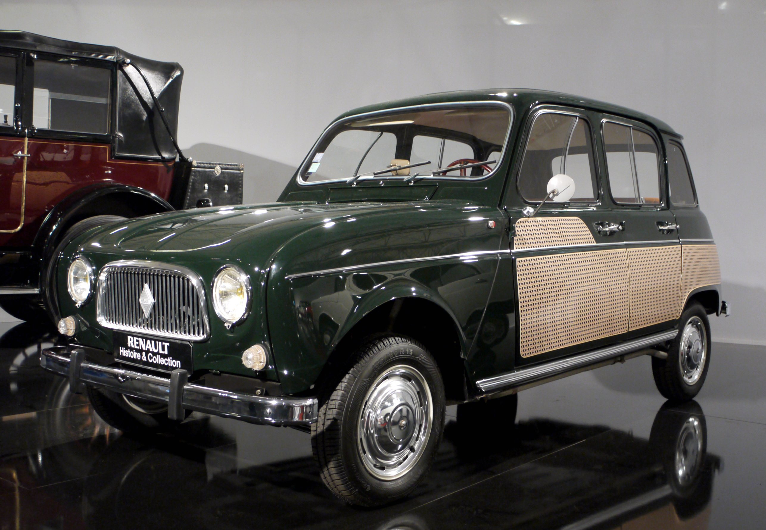 1966 Renault 4 Parisienne - a limited edition launched in collaboration with Elle magazine. Spec.: - 845 cc - 3 speed manual gearbox